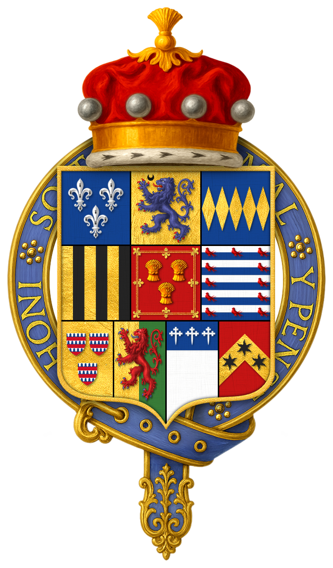 Quartered arms of Sir Thomas Burgh, 7th Baron Strabolgi, KG (later 3rd Baron Burgh)